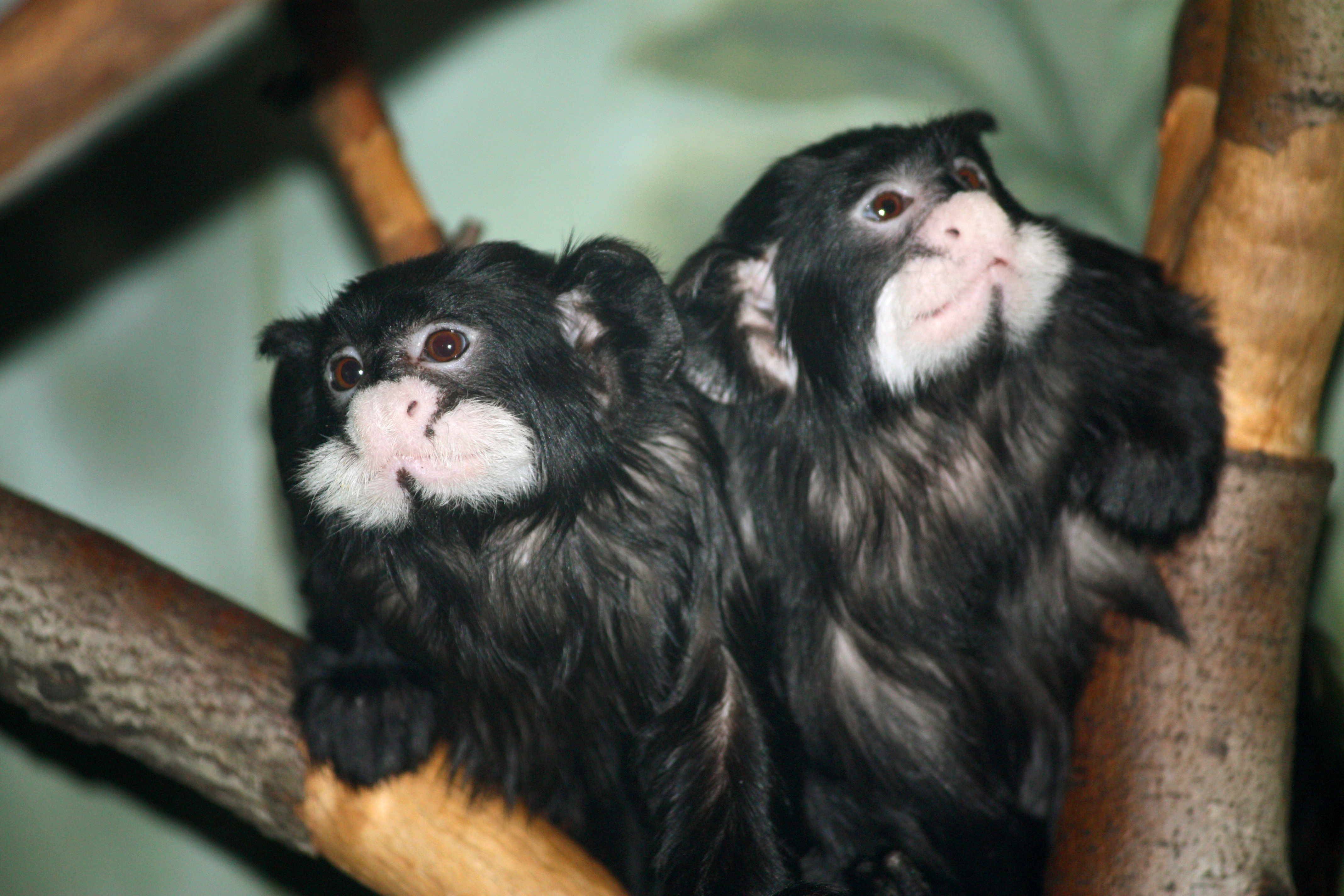 Moustached Tamarin (Saguinus mystax). Bronx Zoo, New York City.